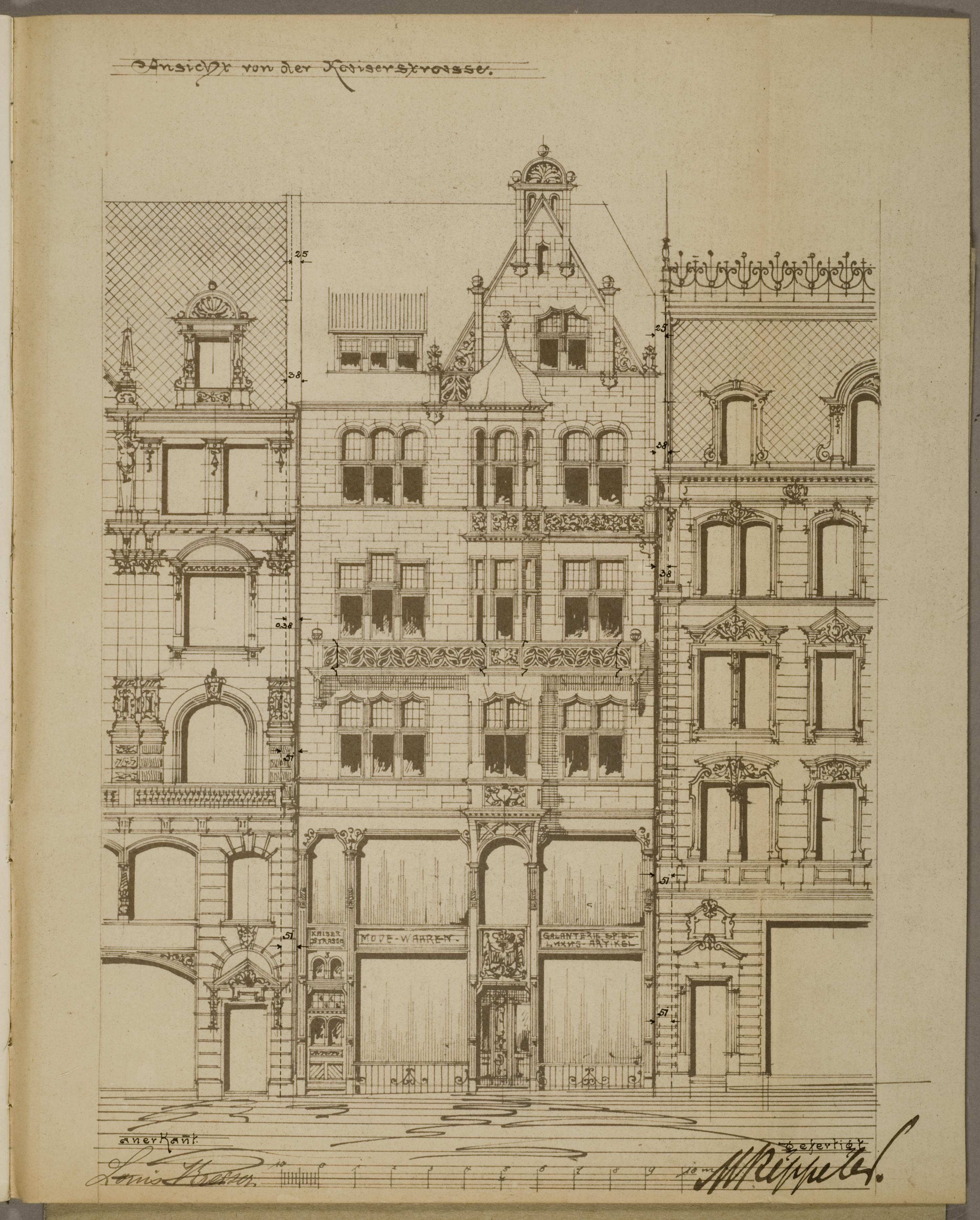 Haus Kaiserstraße 31 - Bauherr Louis Kreiser - Architekt M. Keppeler - Verkauf 1914 an Heinrich Grünwald ab 1920 Café von Konrad Morlock (Heilbronn).JPG